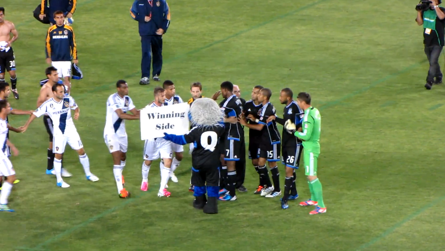 I took this after the match when David Beckham tried to start a fight between the players.